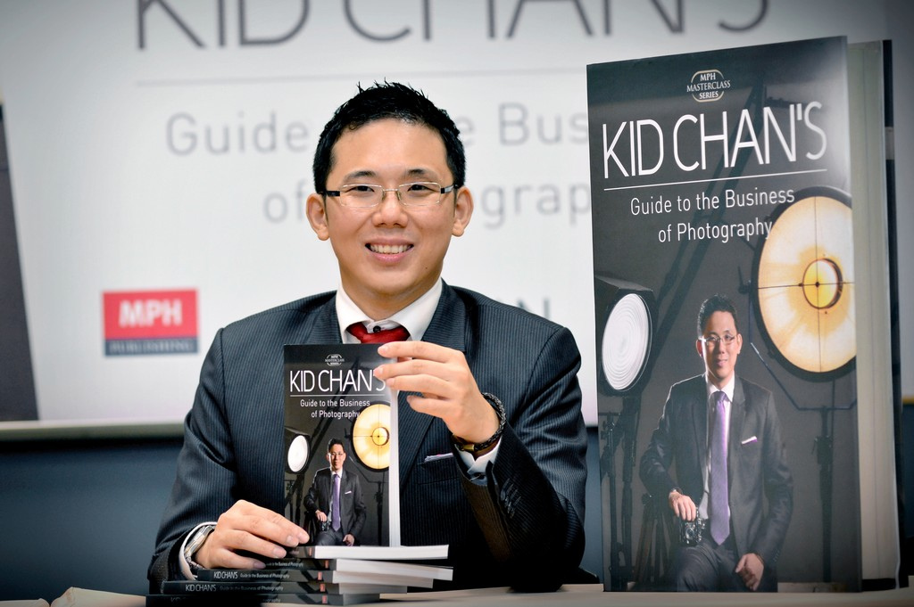 Launch of Kid Chan's Guide to the Business of Photography at Sunway University, Malaysia.